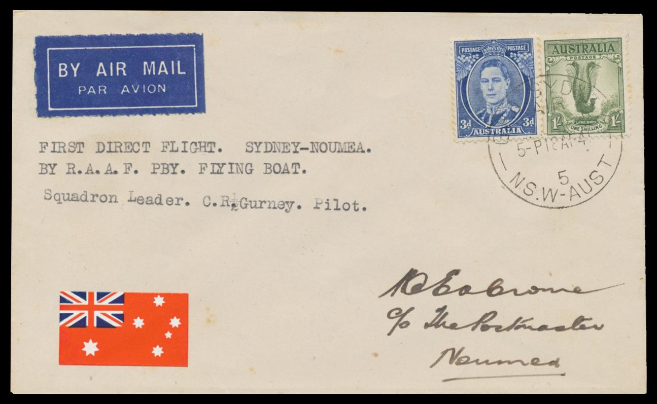 Commemorative envelope for first direct flight between Sydney and Noumea on 18 April 1941 by Bob in an 11 Squadron Catalina flying boat.